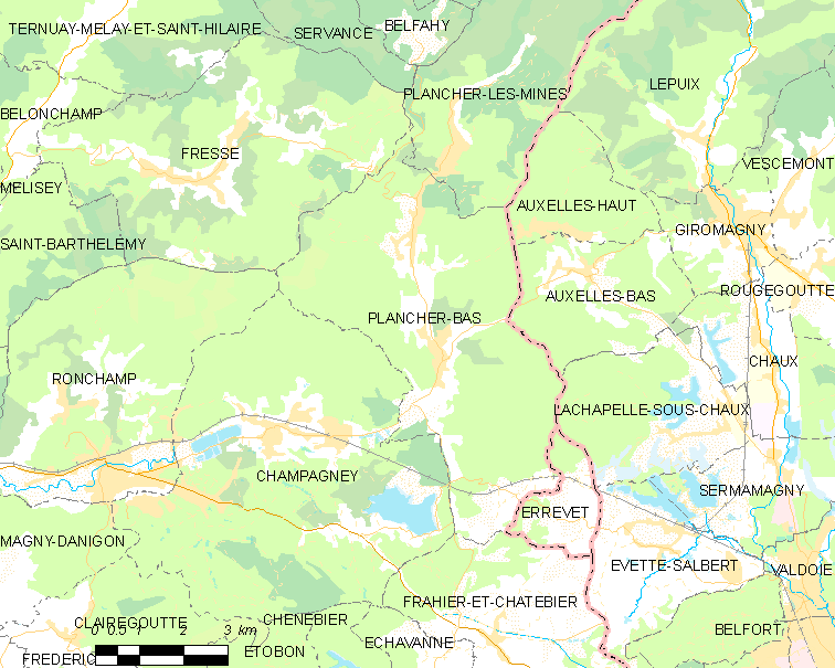 Map of French municipality